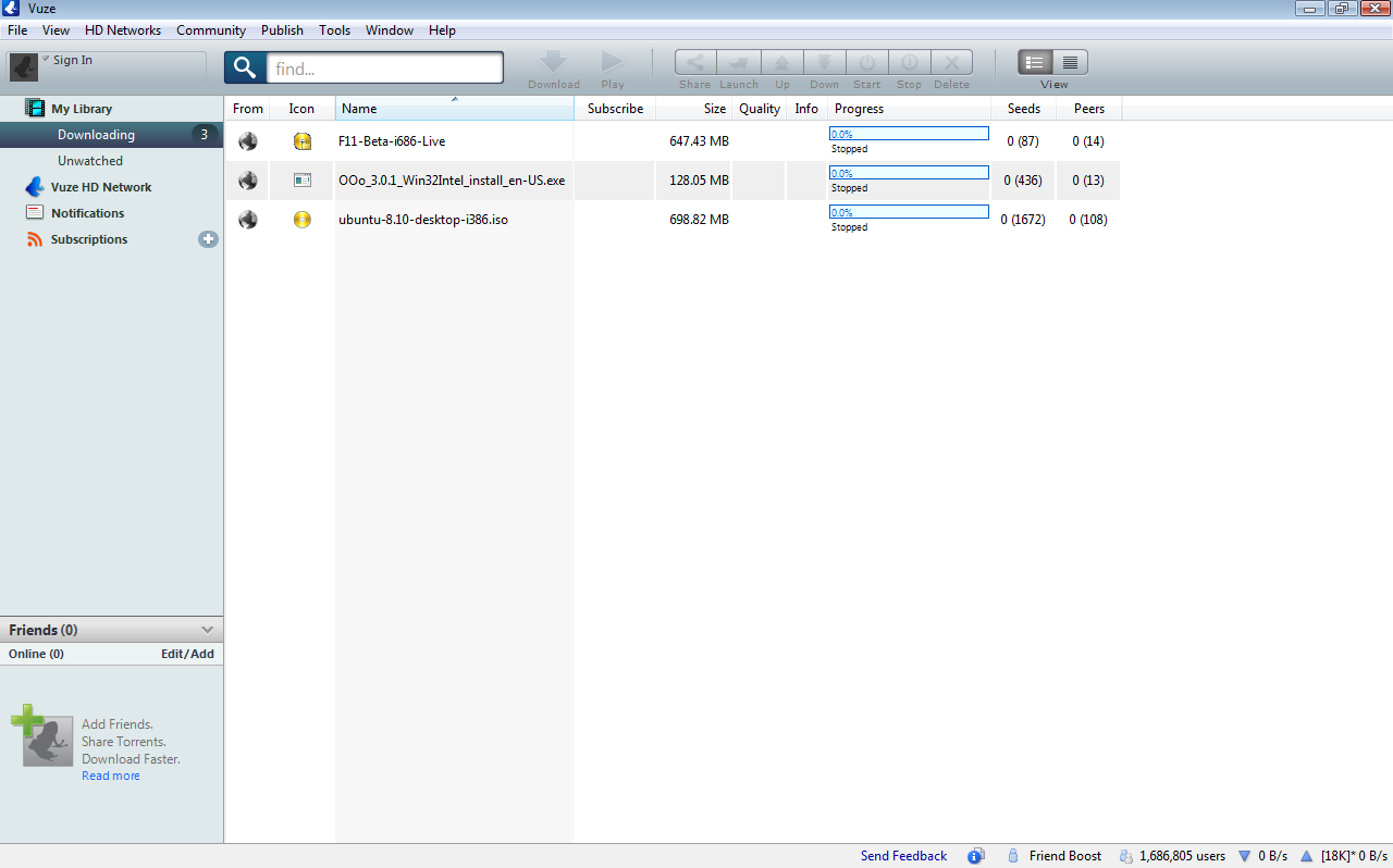 Screenshot of Vuze in Windows Vista SP1